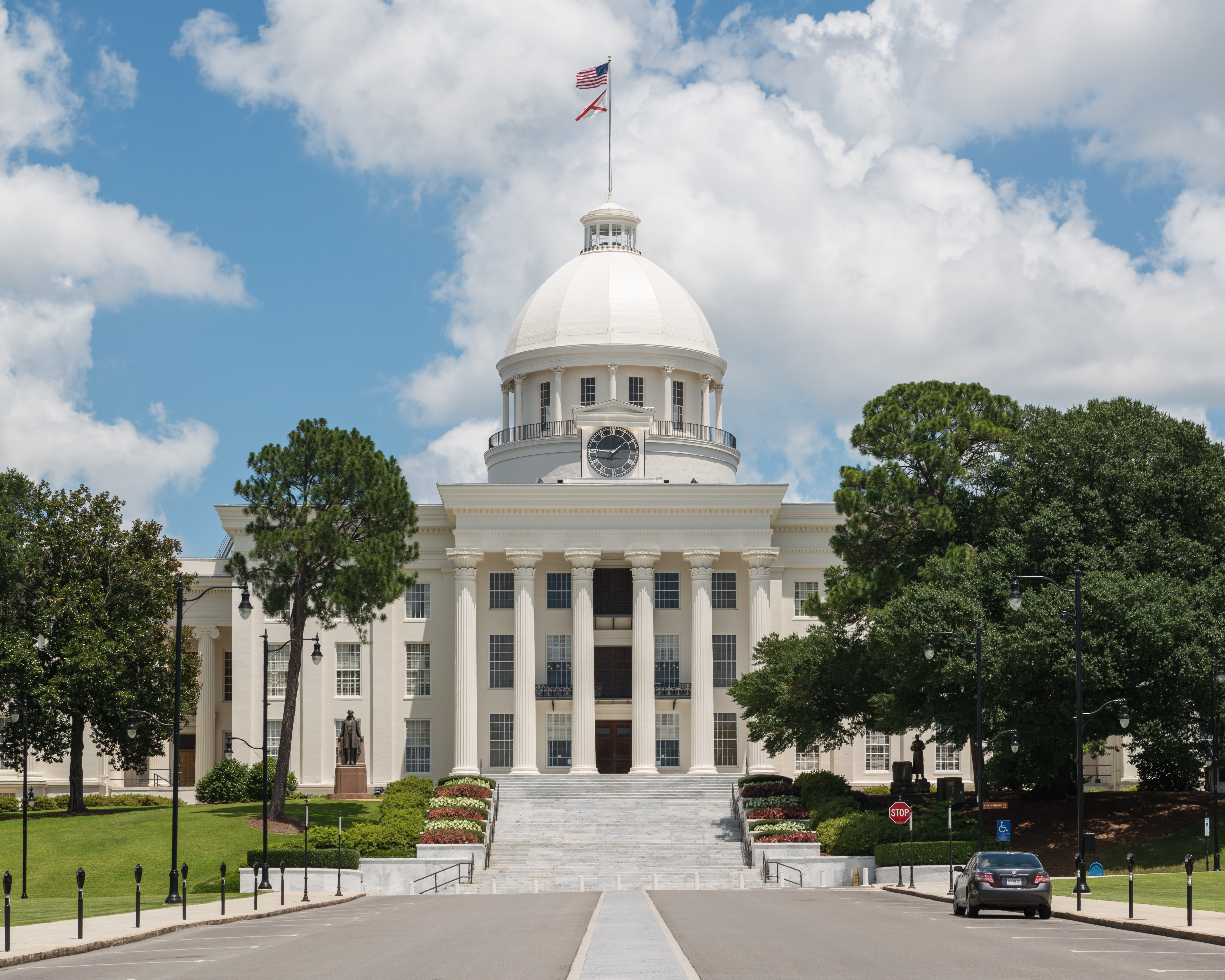 A west view of the Alabama State Capitol, Montgomery, as seen from Dexter Avenue